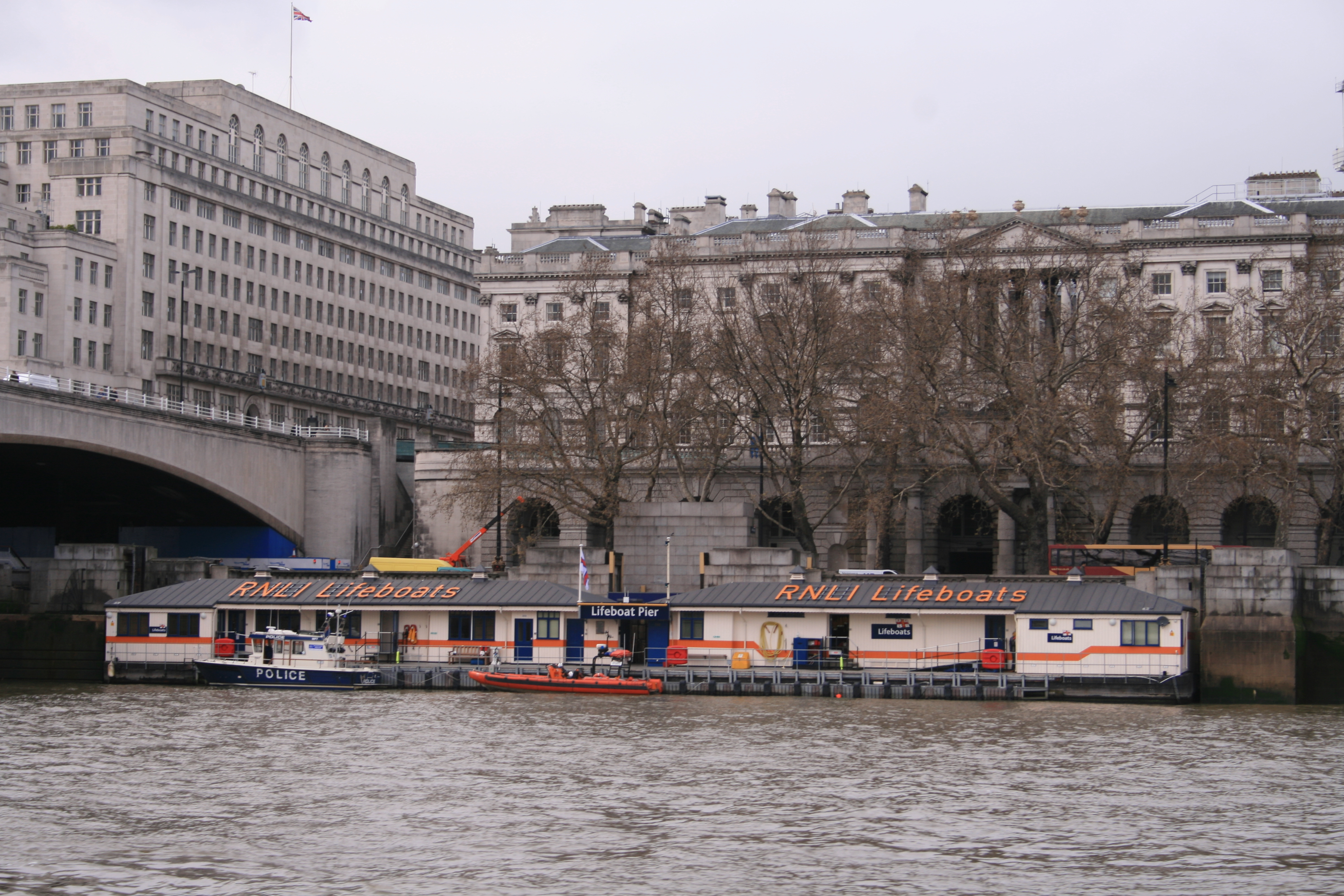 The lifeboat pier on the River Thames, London, UK